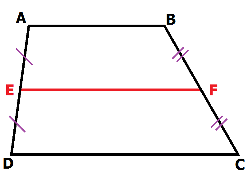 Central median of a trapezoid